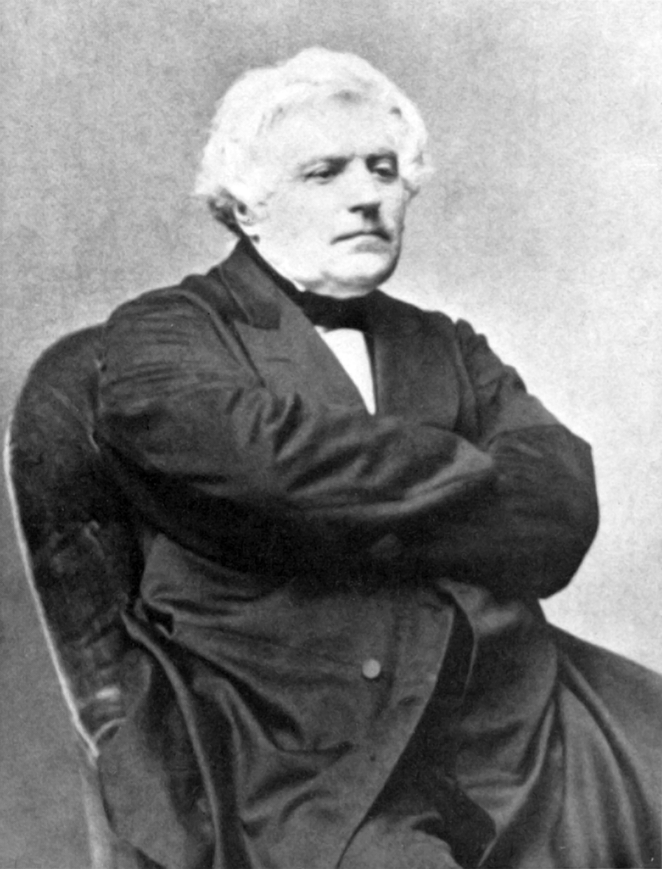 Georg Christian Carl Boos (also Karl Boos), (* September 8th, 1806; † July 18th, 1883), German architect and court architect of the Duchy of Nassau.